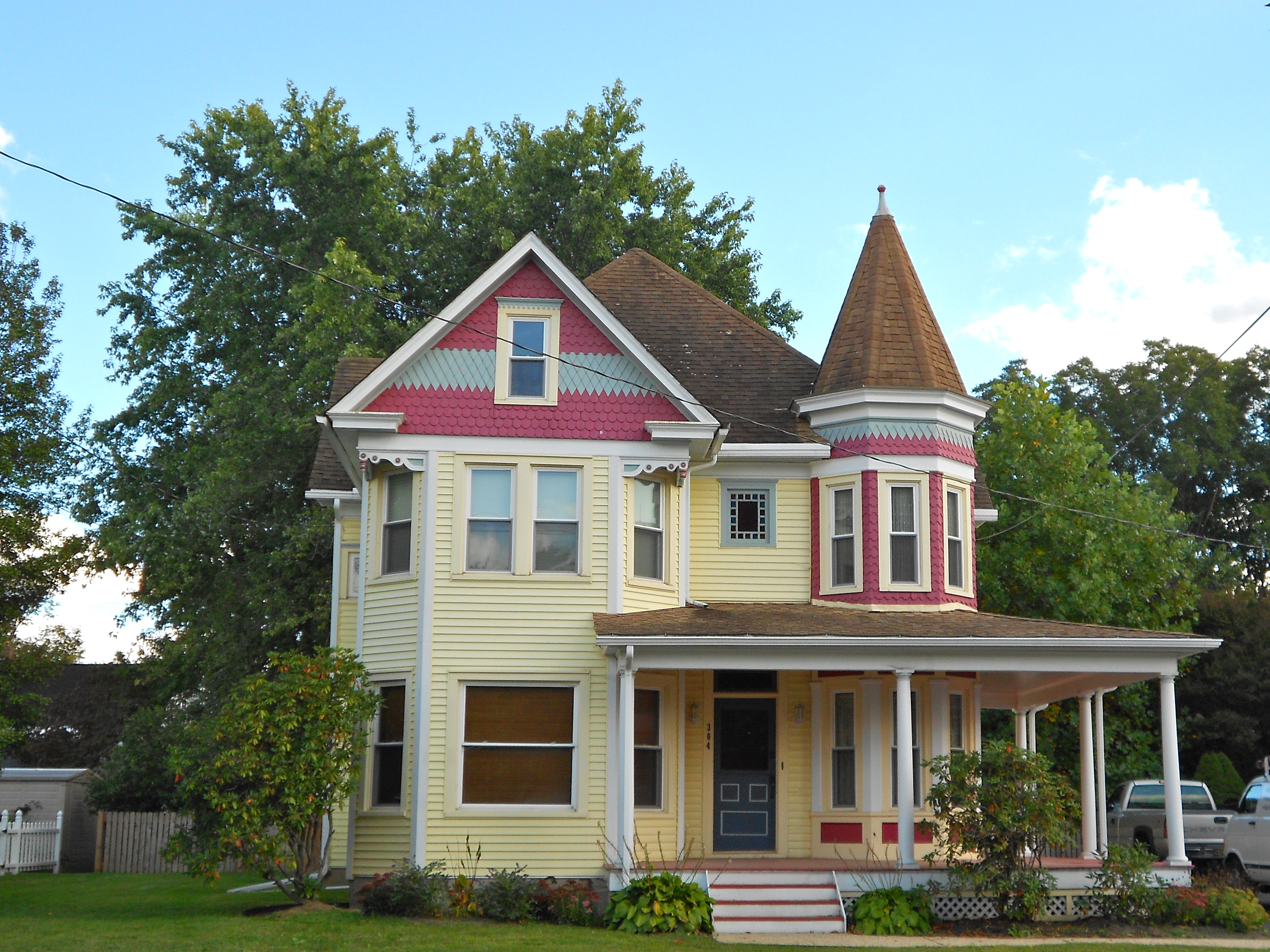 Building in Townsend Historic District listed on the NRHP on May 8, 1986. The historic district is roughly bounded by Gray, Ginn and South, Lattamus and Main Sts., and Commerce St. and Cannery Ln. and Railroad Ave., in Townsend, Sussex County, Delaware